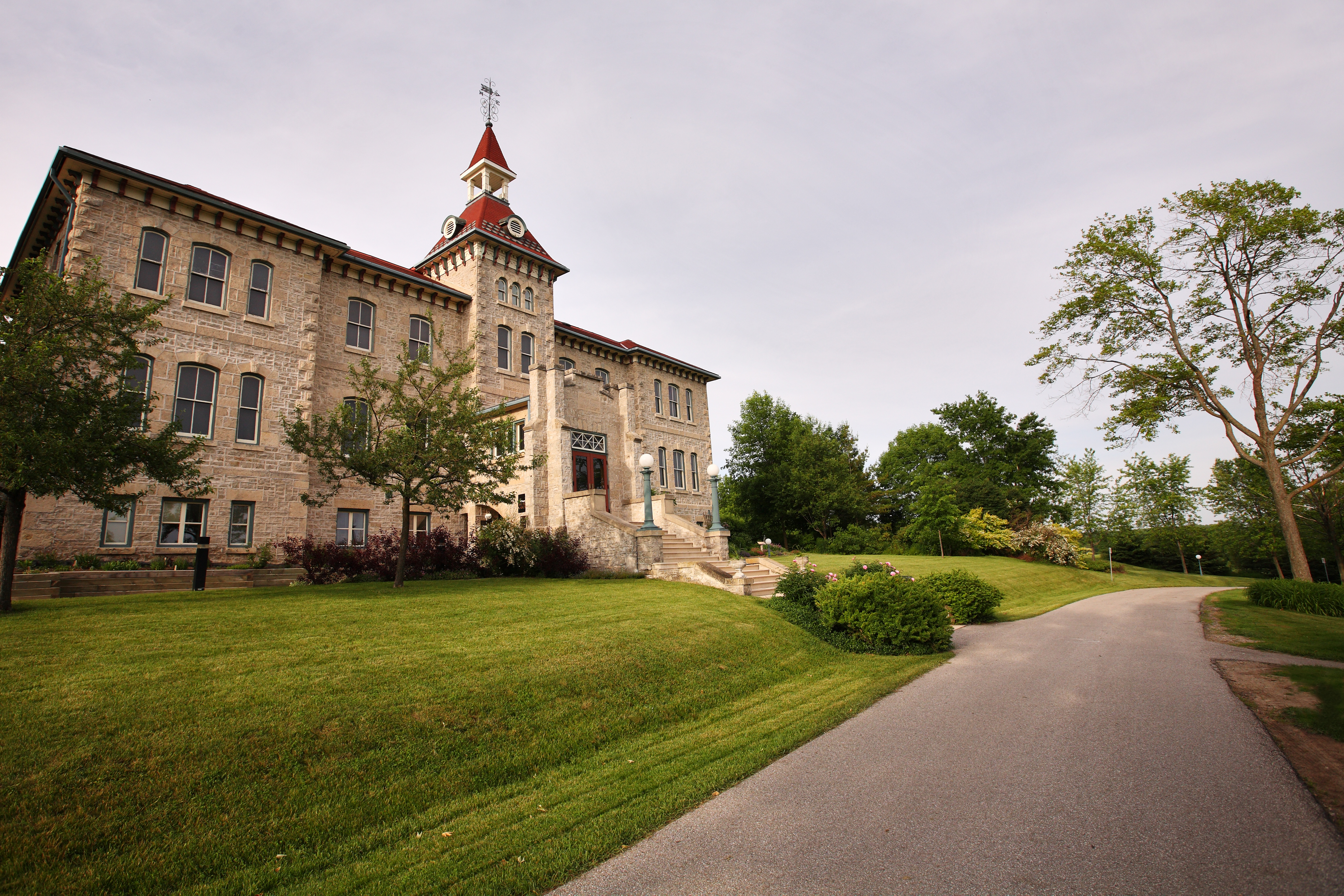 Wellington County Museum and Archives building near Fergus, Ontario.